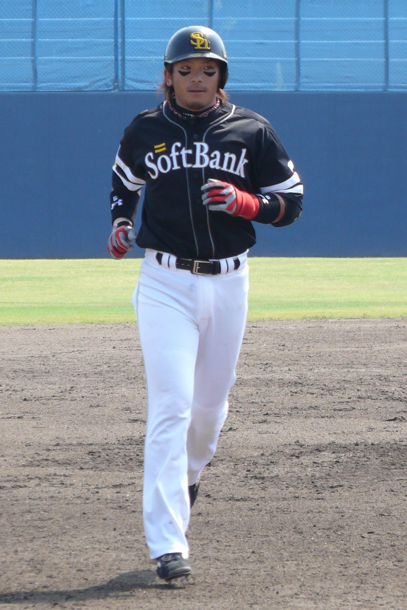 Nobuhiro Matsuda, infielder of the Fukuoka SoftBank Hawks, at Nagoya Baseball Stadium.